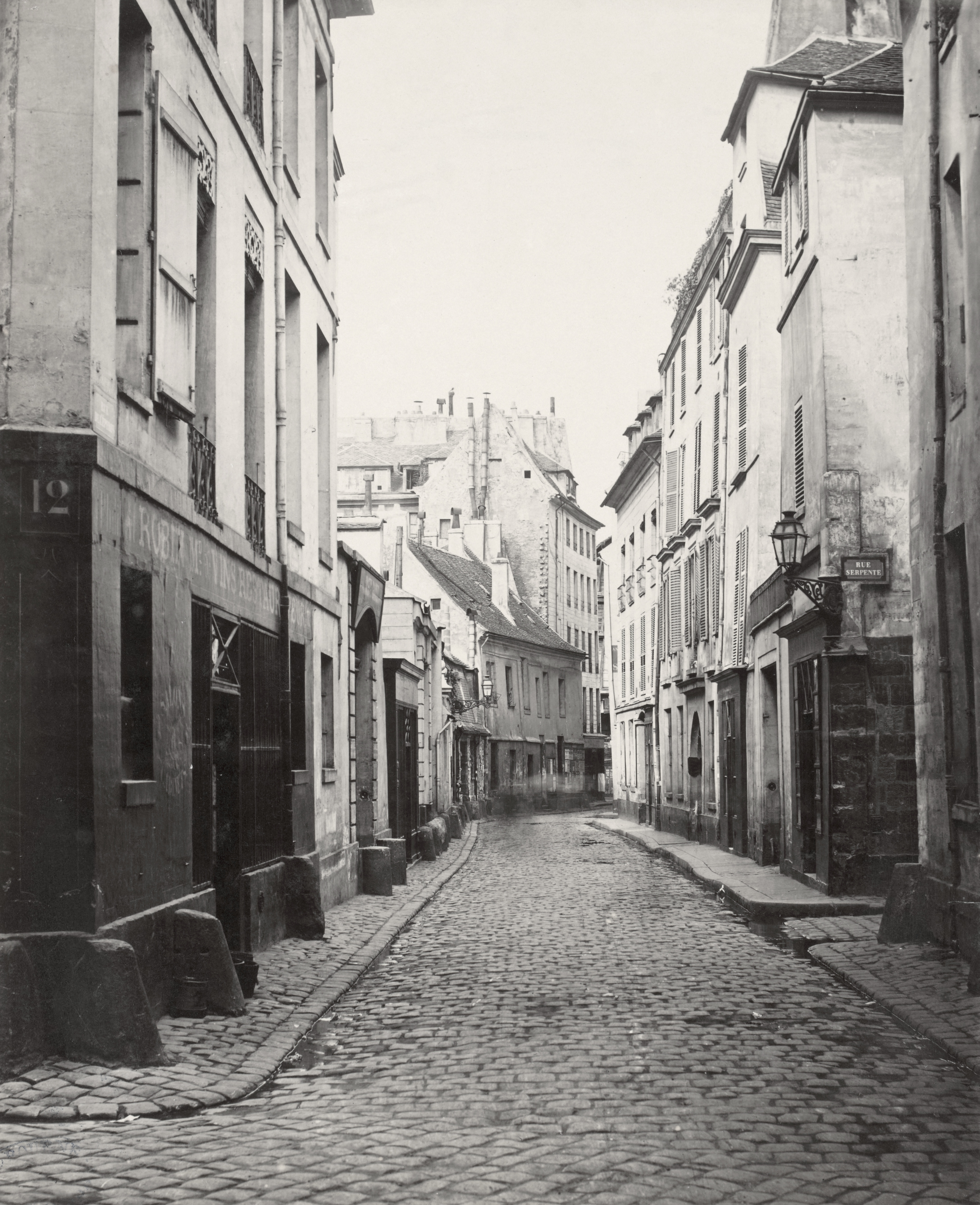 Looking along cobbled street with doorways opening onto narrow paths, lane on right with plaque on wall reading: Rue Serpente.